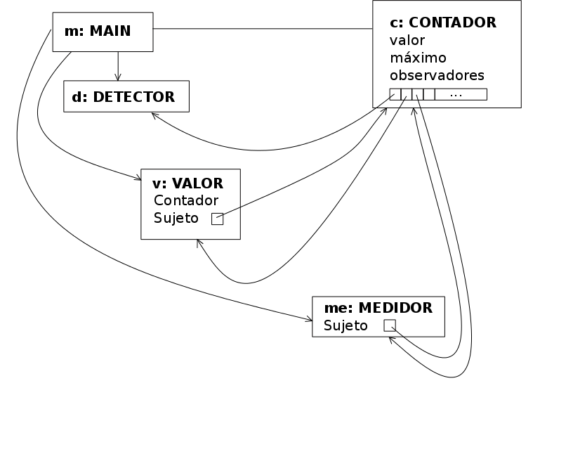 Ejemplo de implementación patrón observador diagrama de objetos